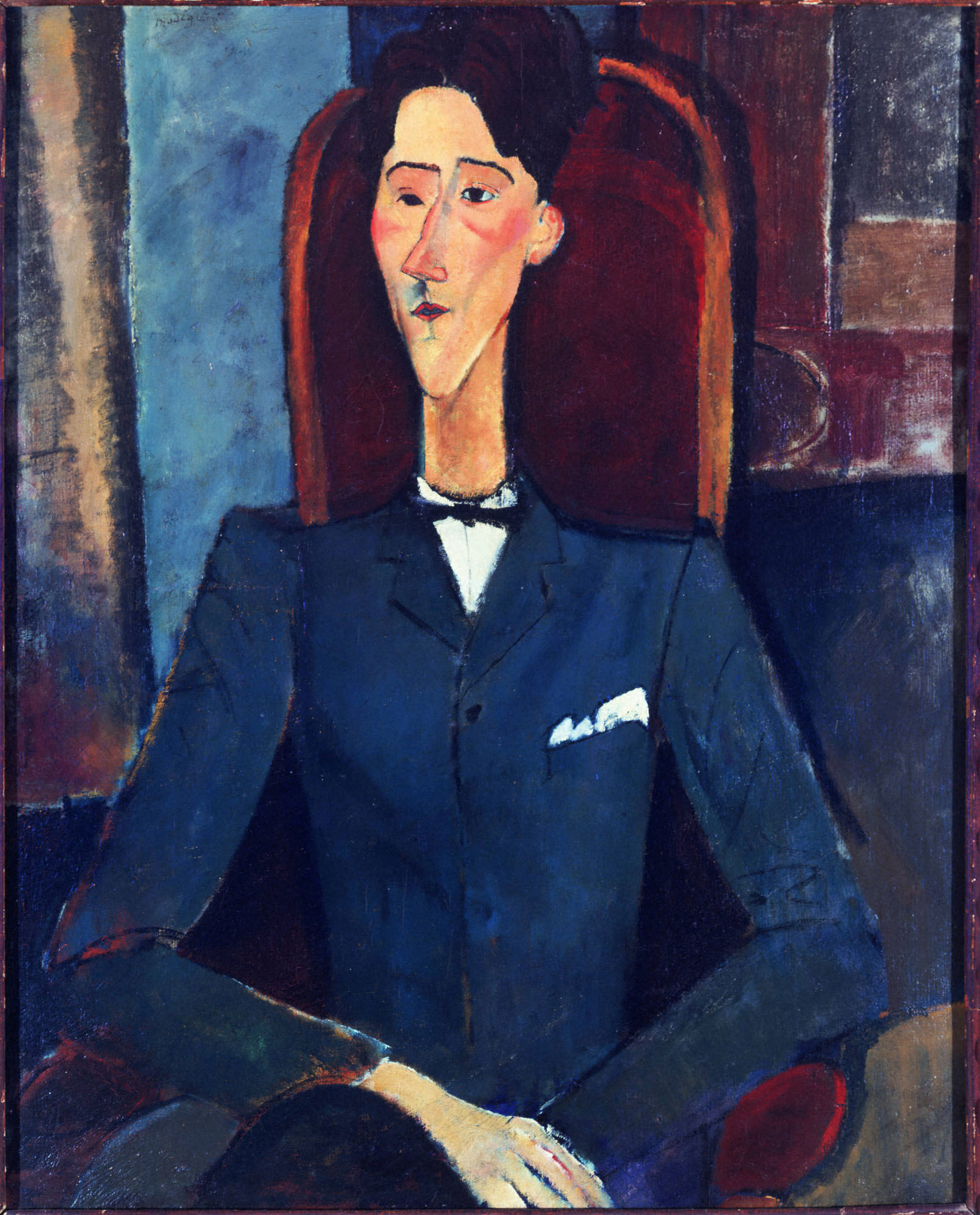 Modigliani moved from his native Italy to Paris in 1906 and soon became part of the city's vibrant artistic and literary culture. His portraits often portray friends from this bohemian world, such as the poet, playwright, and filmmaker Jean Cocteau. Cocteau's elongated head, neck, and nose, as well as his simplified features, recall the artist's sculptural work, which was informed by his study of the so-called "primitive" forms of non-Western sculpture. The color tonalities, drawing style, and overall composition of the portrait reflect the strong influence of Cézanne.